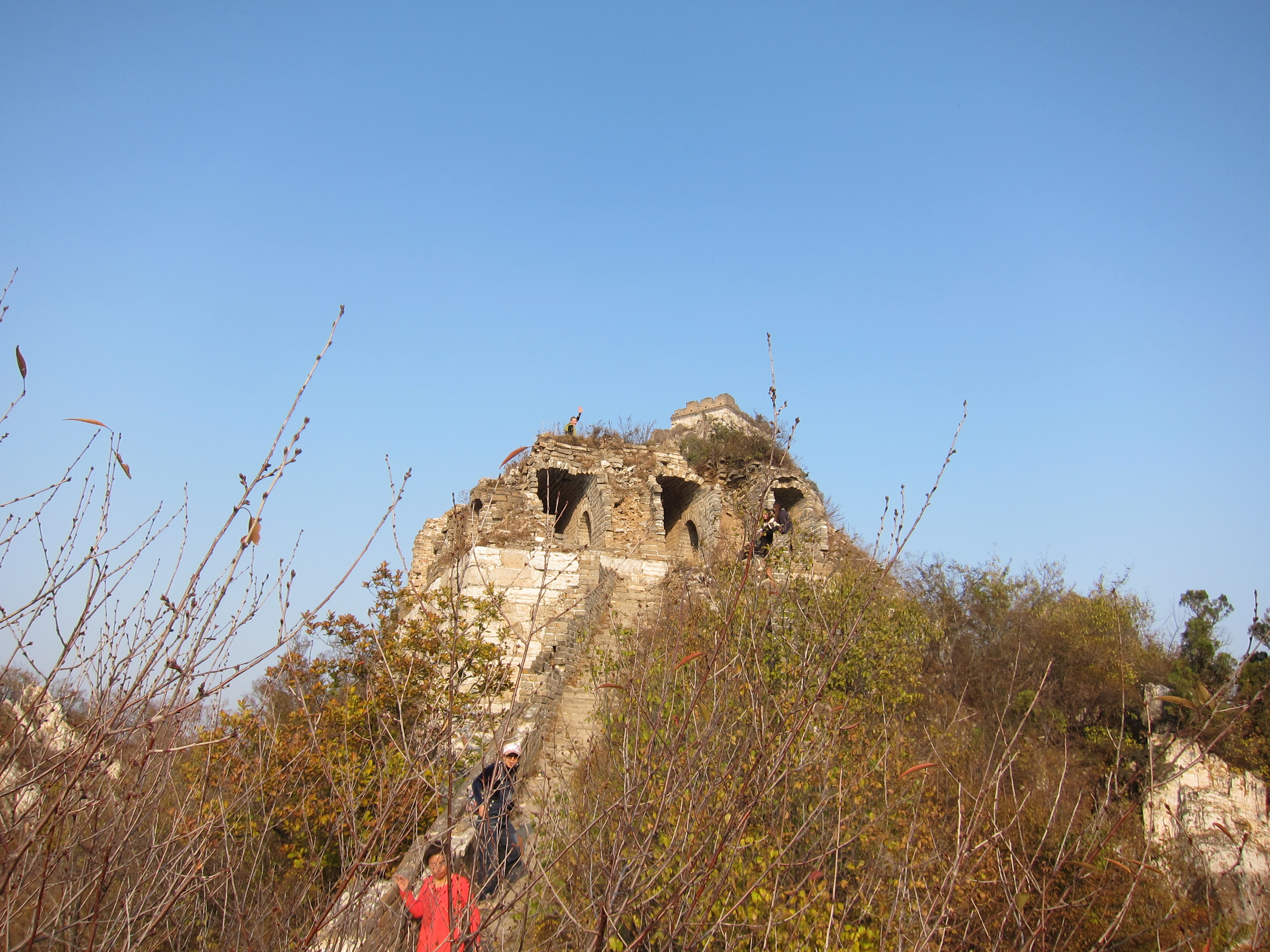 A tower along the Jiankou Great Wall that has fallen into disrepair